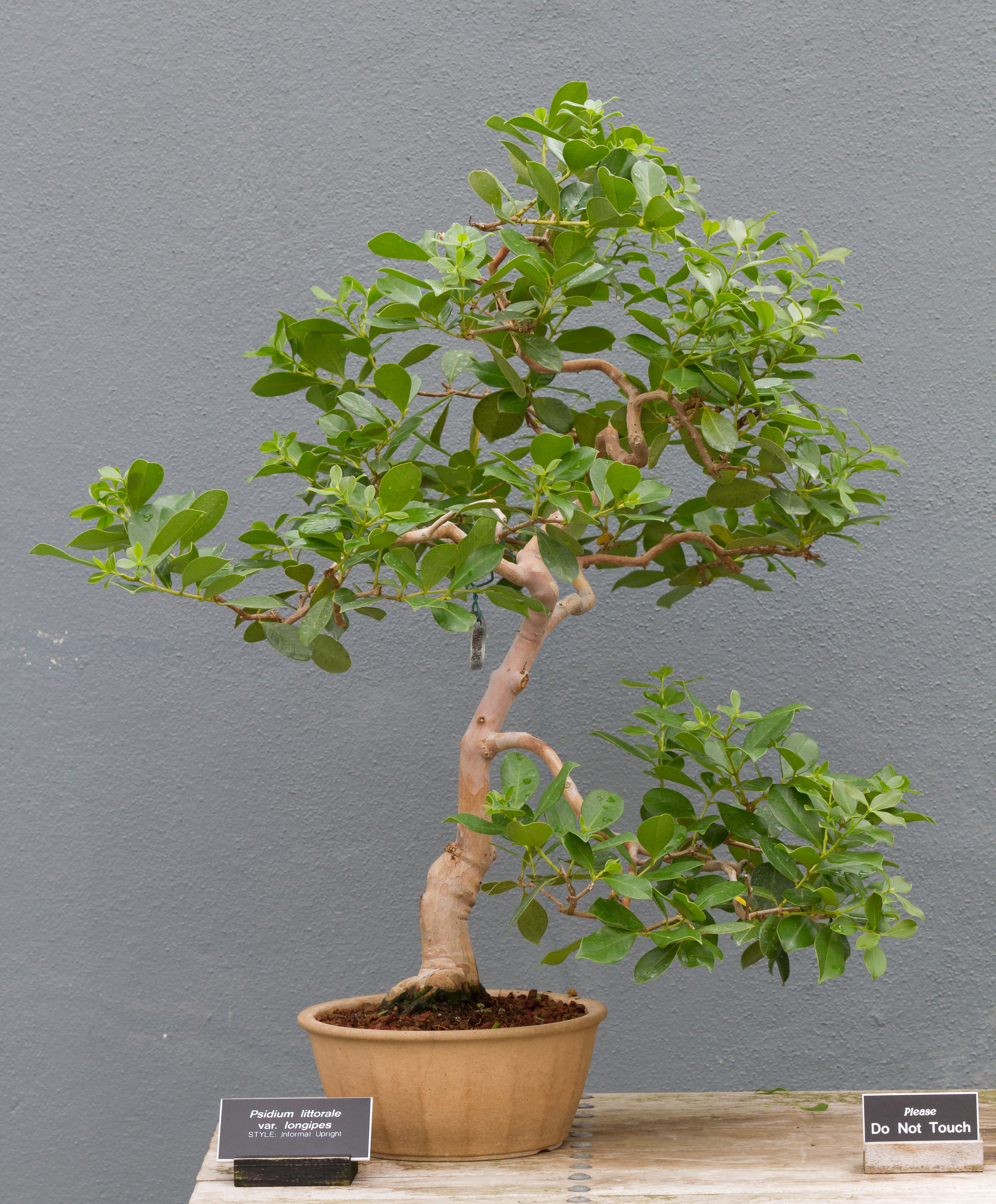 Bonsai - Psidium littorale var. longipes